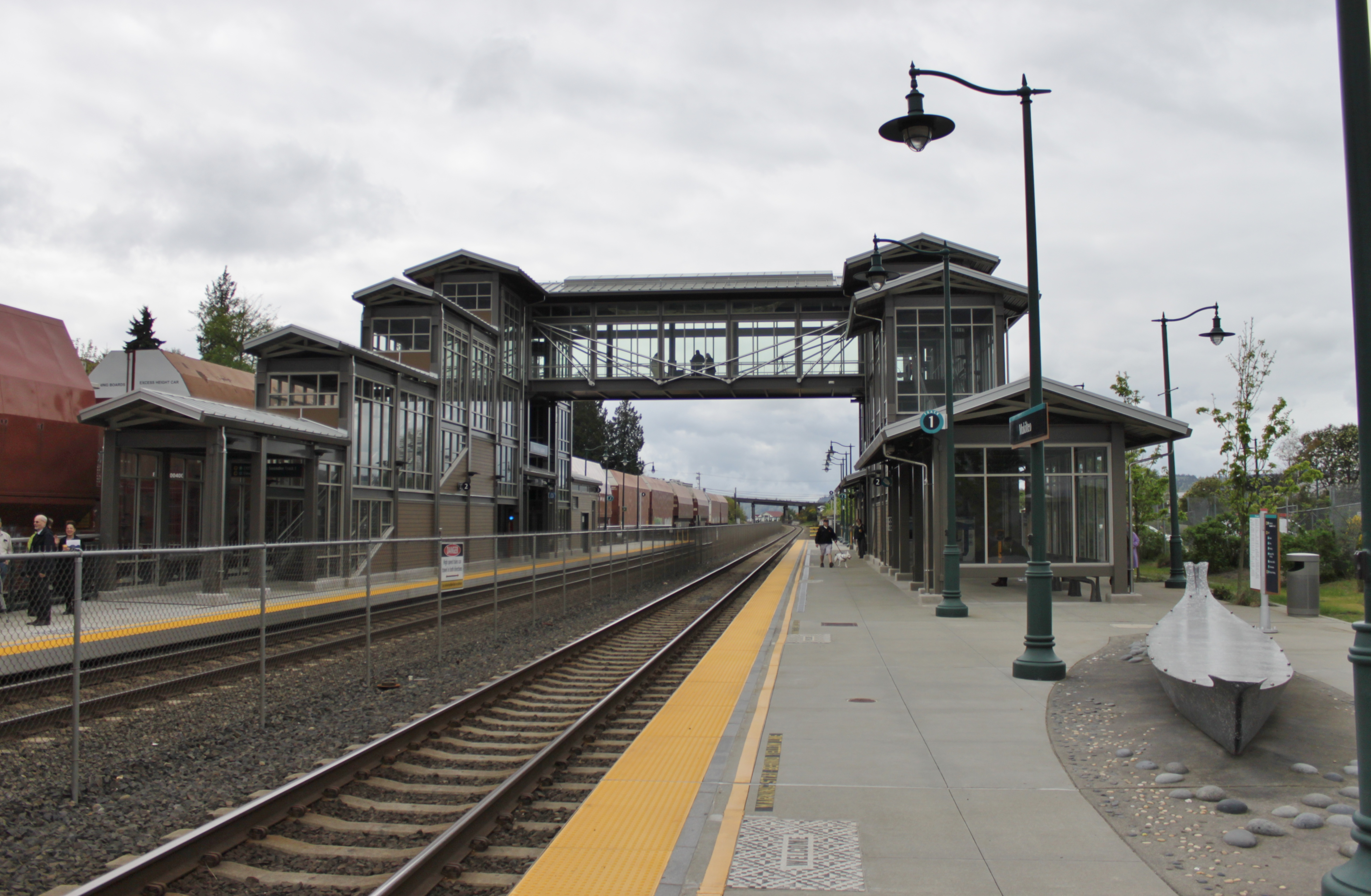 Mukilteo station after the opening of the second platform